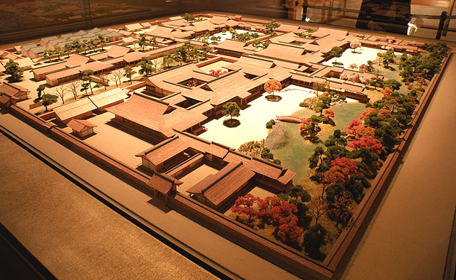 Hikaru Genji's Rokujō resident model from Genji Monogatari Museum, Uji, Japan